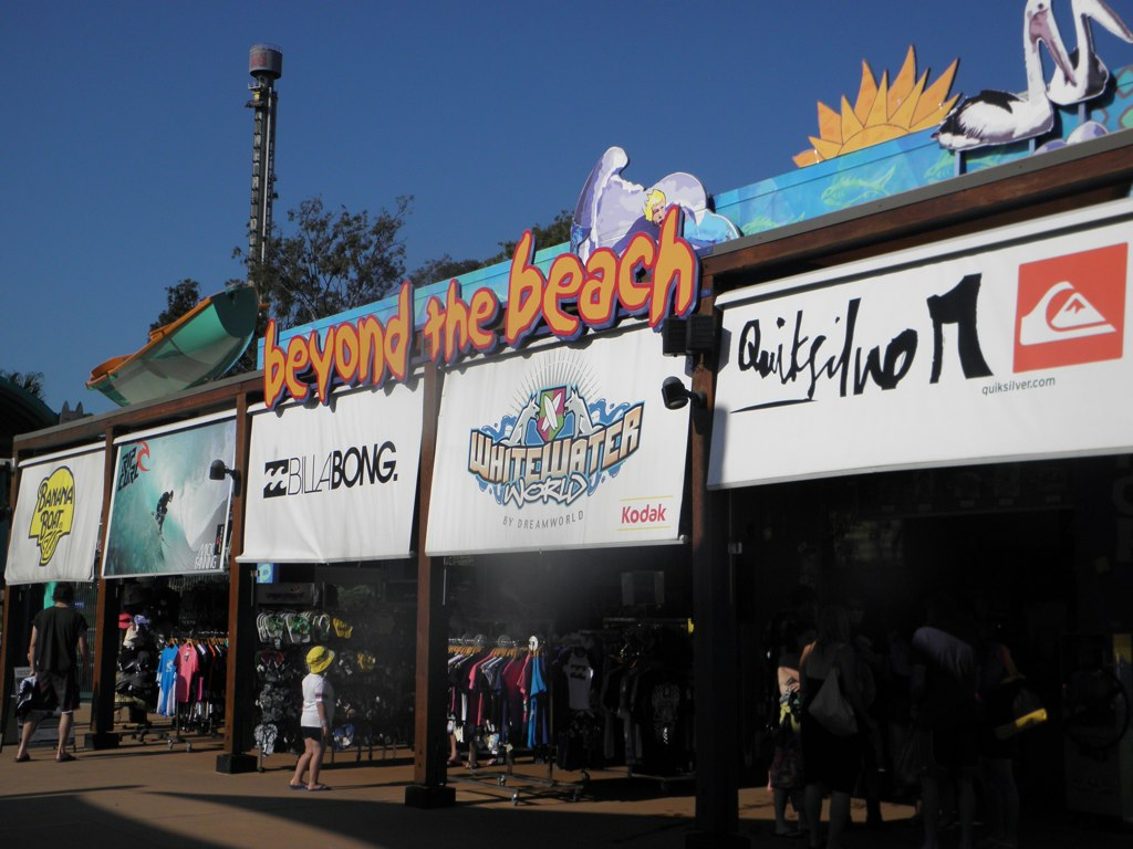 Beyond the Beach merchandise shop at WhiteWater World, Gold Coast, Australia.